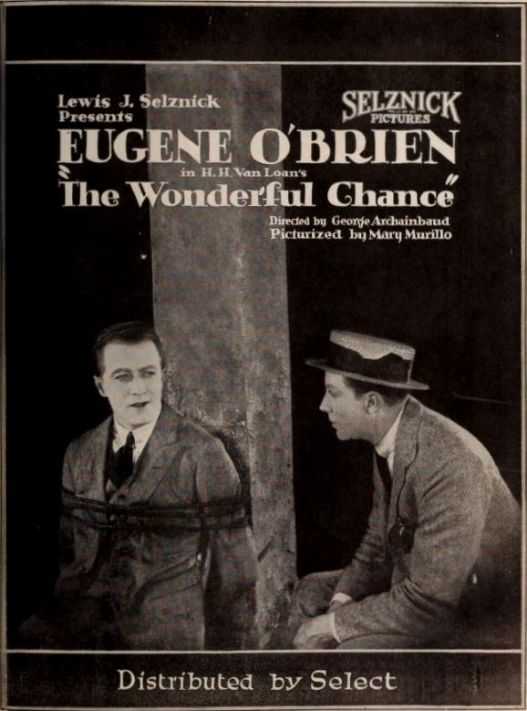 Advertisement for the American crime drama film The Wonderful Chance (1920) with Eugene O'Brien and Rudolph Valentino, on page 5 of the October 16, 1920 Exhibitors Herald.